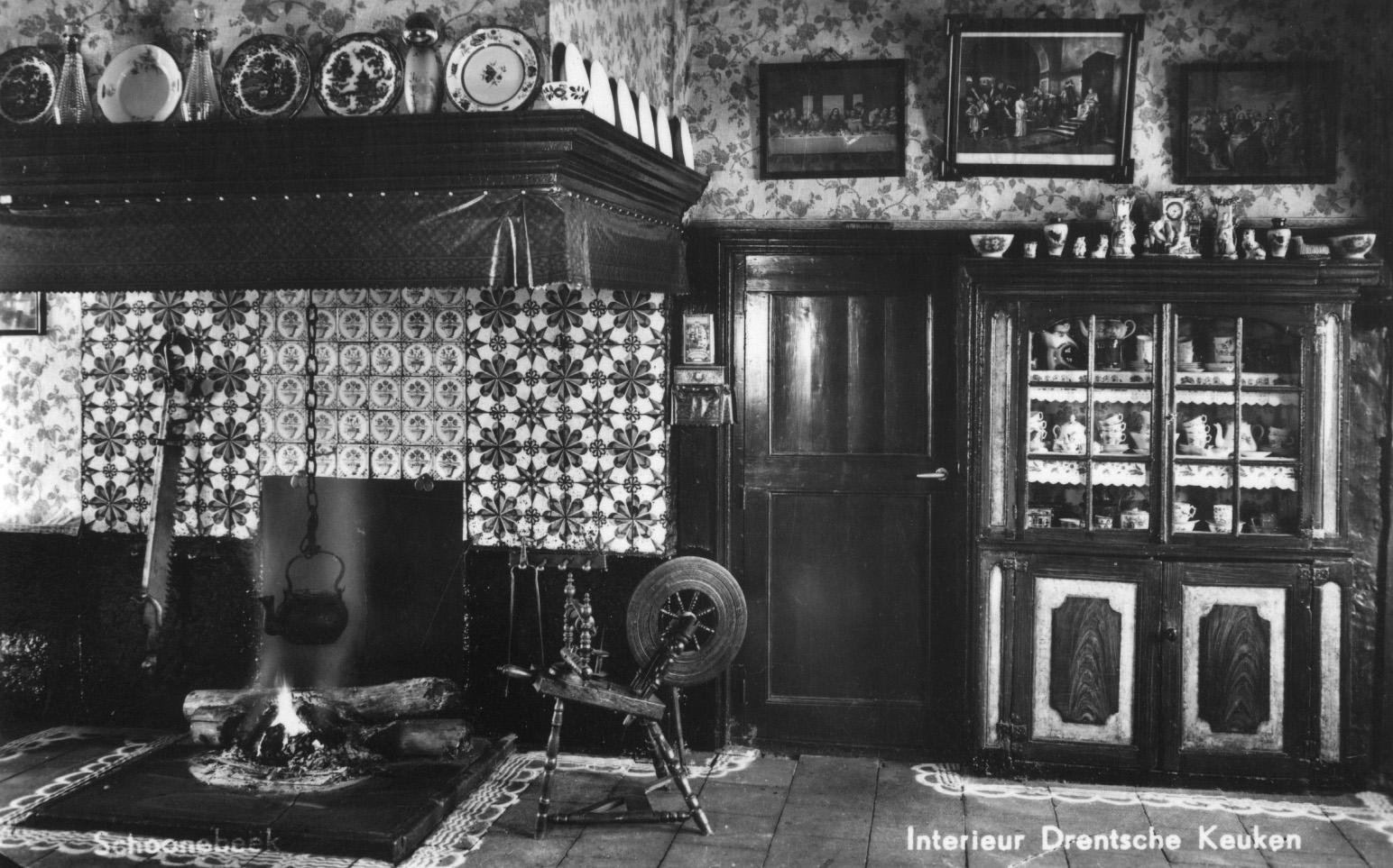 Sandpainted kitchen floor, black and white photography, about 1900-1920, Drenthe, Netherlands.